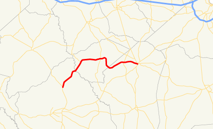 Map of Georgia State Route 102